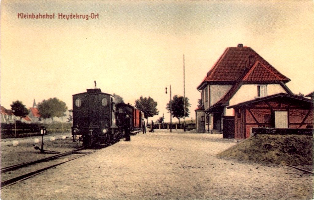 Old postcard displaying Šilutė railway station